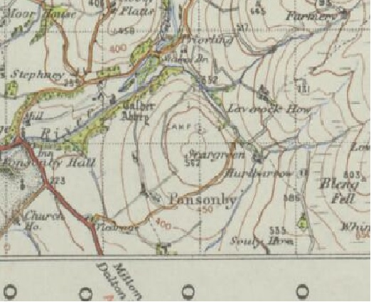 This is a historical map extract of Ponsonby Cumbria